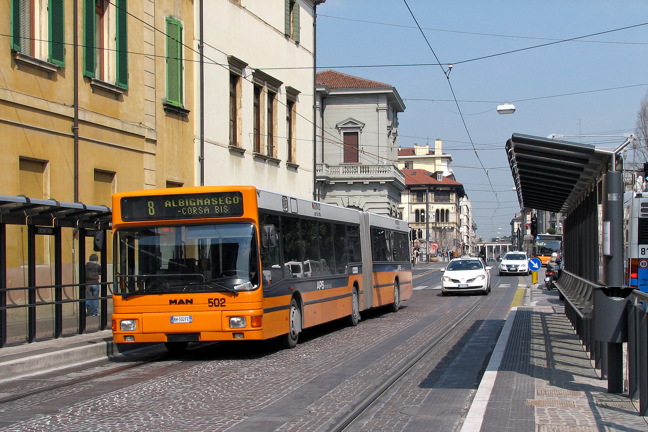 Articulated 502 with a supplement run of route 8 arriving at the stop in Corso Garibaldi. MAN NG 272 bus in Padua, Italy.